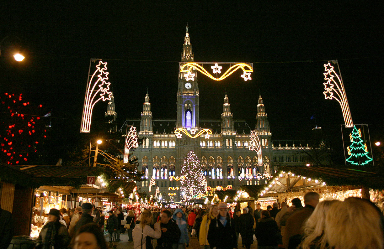 Christkindlmarkt (advent market) in front of the town hall of Vienna, Austria